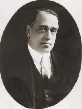 Witold Chodźko (1875-1954) – Polish physician, psychiatrist. Minister of Health Care 1919